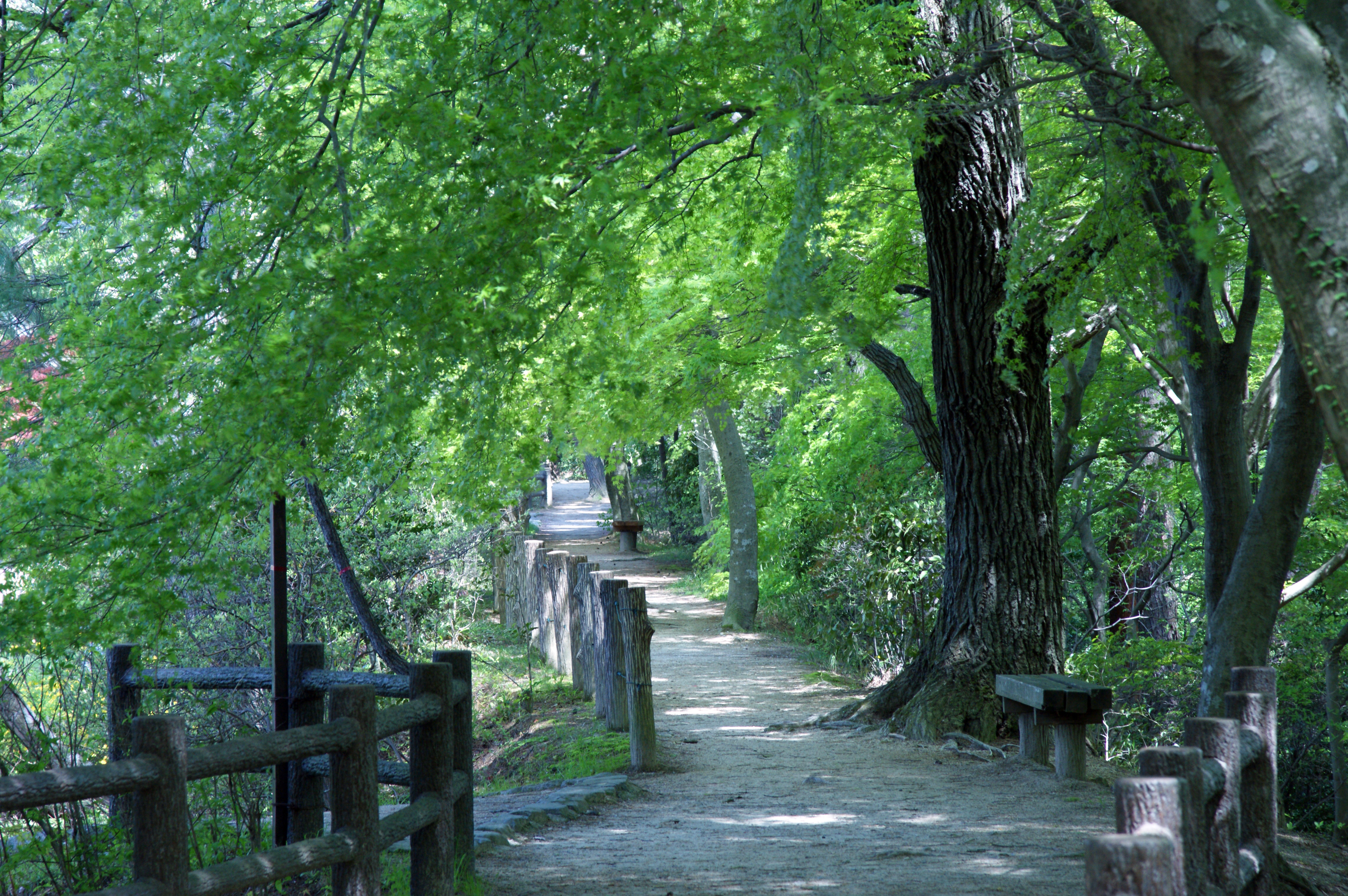 Futatabi Park in Kobe, Hyogo prefecture, Japan